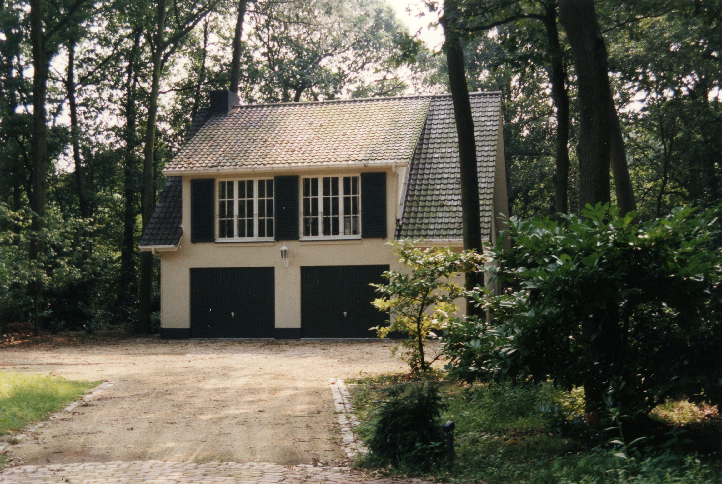 Studio Vandersteen. Based in Kalmthout, Belgium.